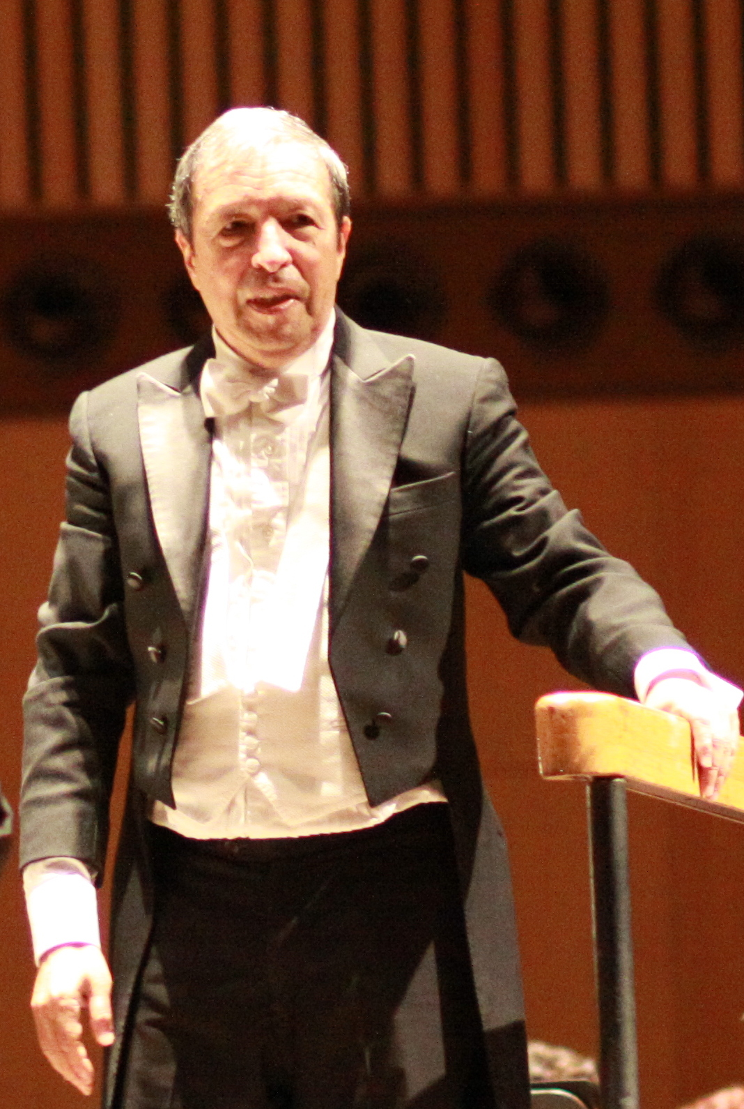 Murray Perahia. Concert with Israel Philharmonic Orchestra. Tel Aviv, December 22, 2012